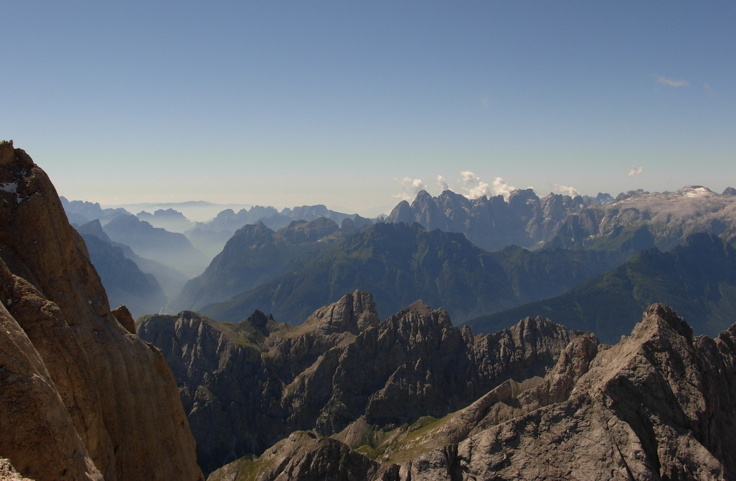 View from Marmolada